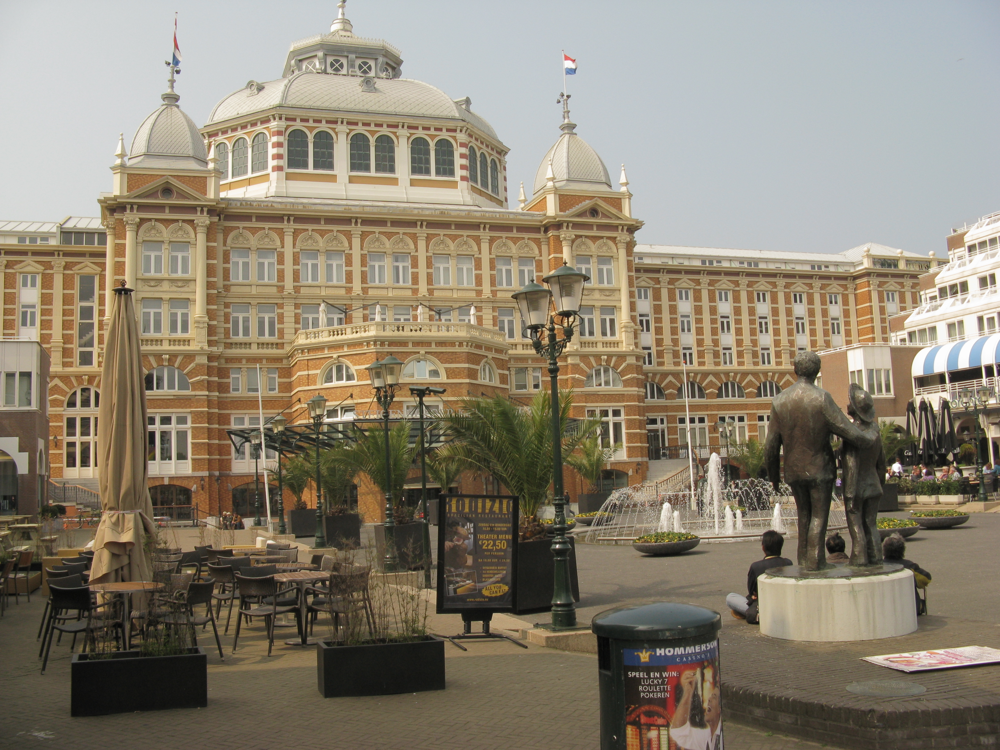 View of the square at the rear of the Kurhaus in Scheveningen, The Netherlands.